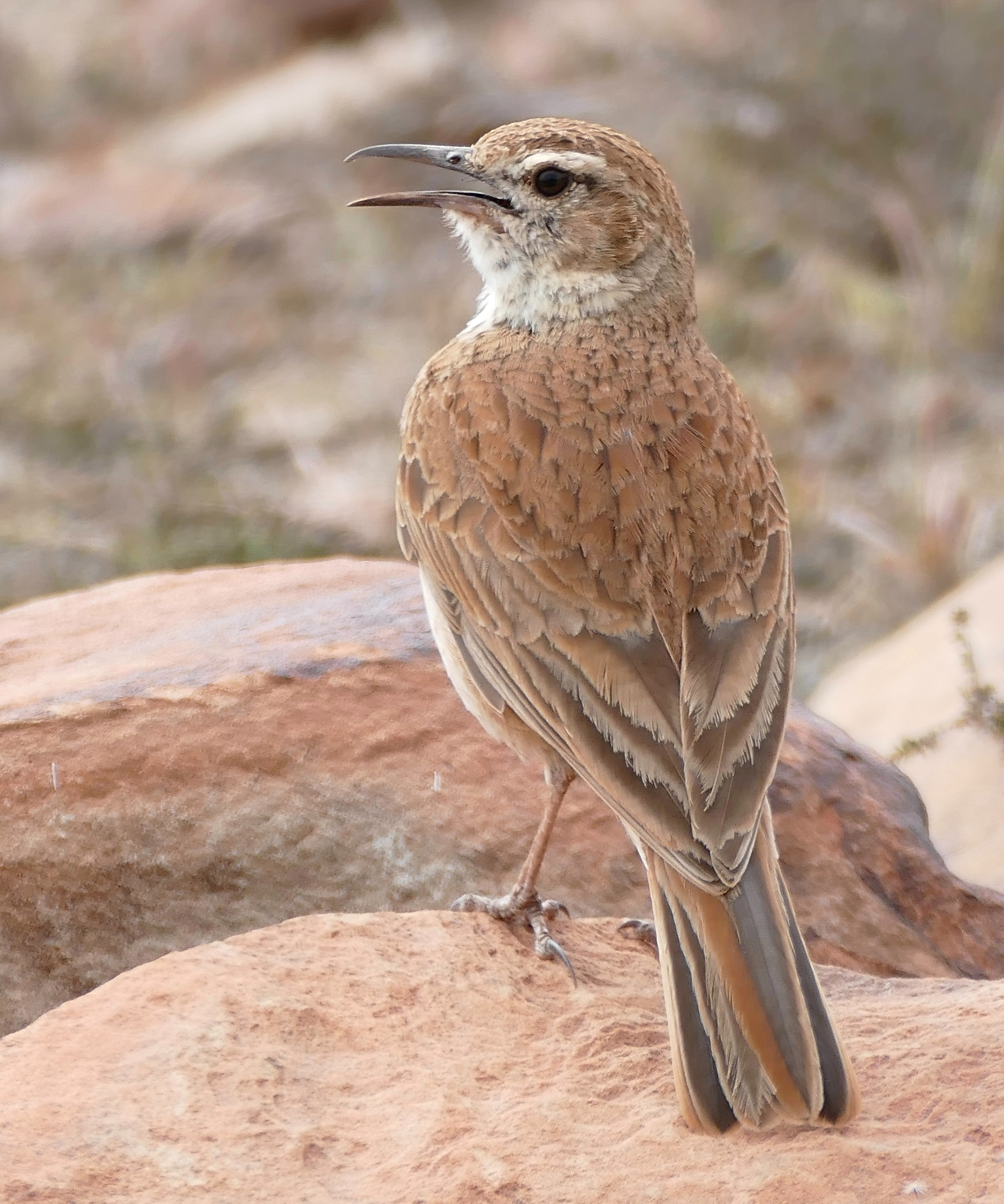 Eastern long-billed lark calling at Link Road, Mountain Zebra NP, Eastern Cape, SOUTH AFRICA